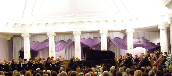 Kharkov philharmonic orchestra concert